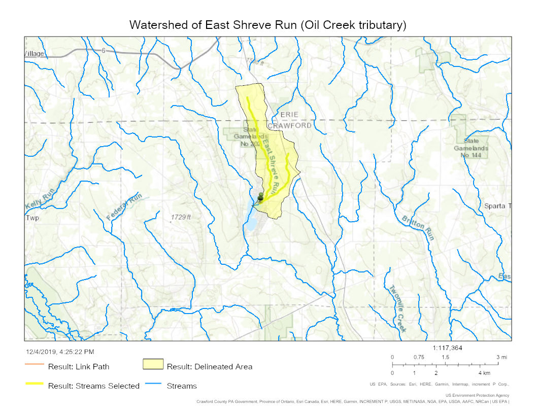 Map of the watershed of East Shreve Run (Oil Creek tributary) in Crawford and Erie Counties, Pennsylvania.